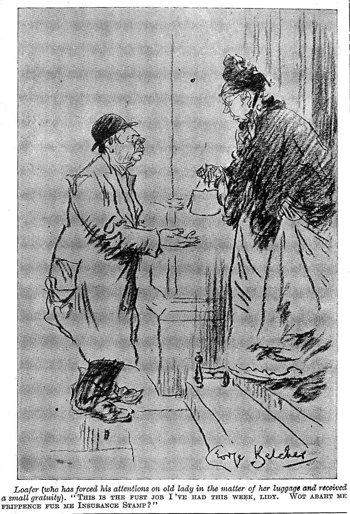 National Health Service. Insurance Stamp. General Collections